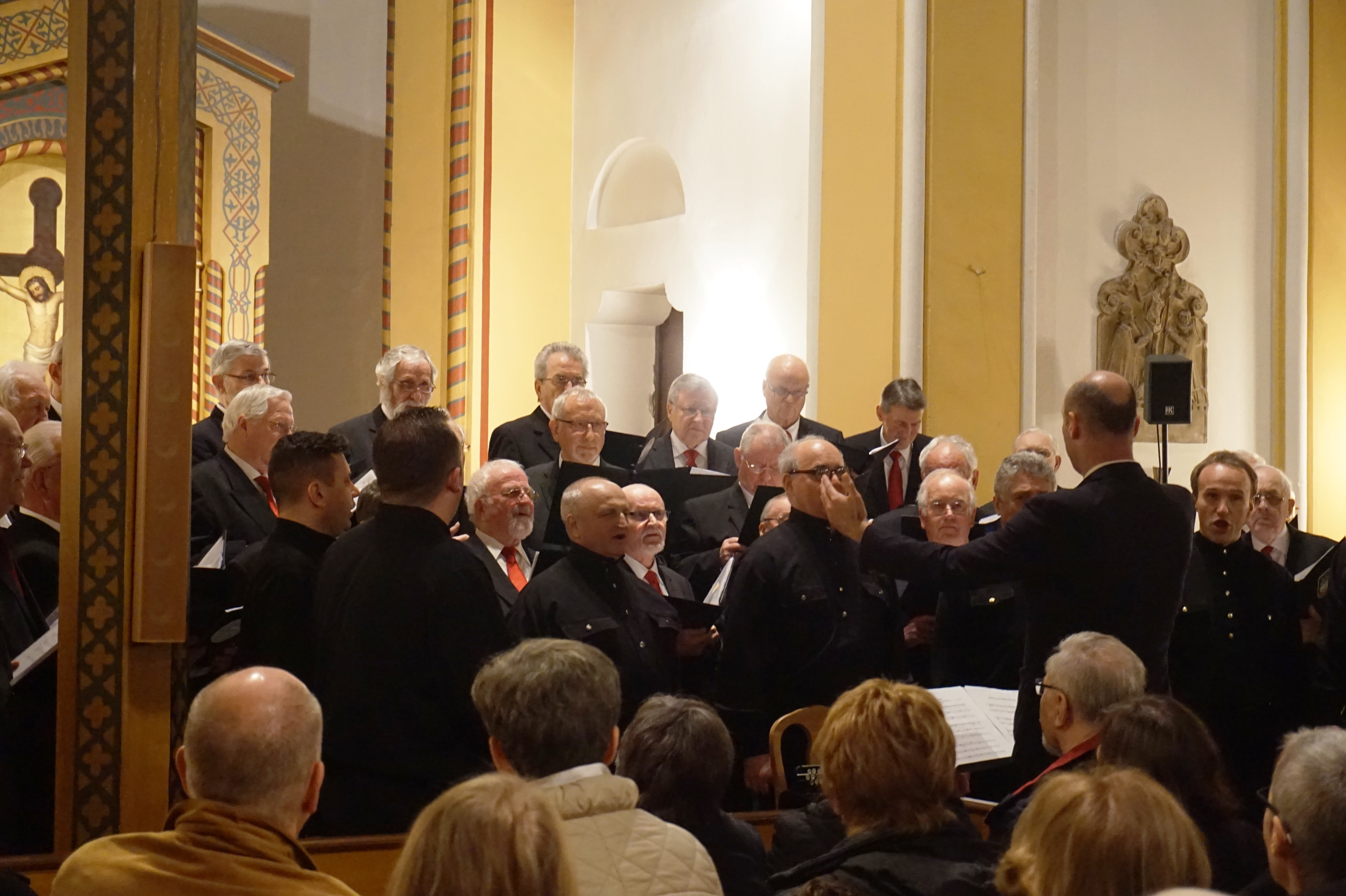 The Ural Cossack Choir in concert with three male choirs ("Germania" Wettmar, "Concordia" Großburgwedel and "Liederkranz" Fuhrberg) in Wettmar (Germany), March 24, 2017.